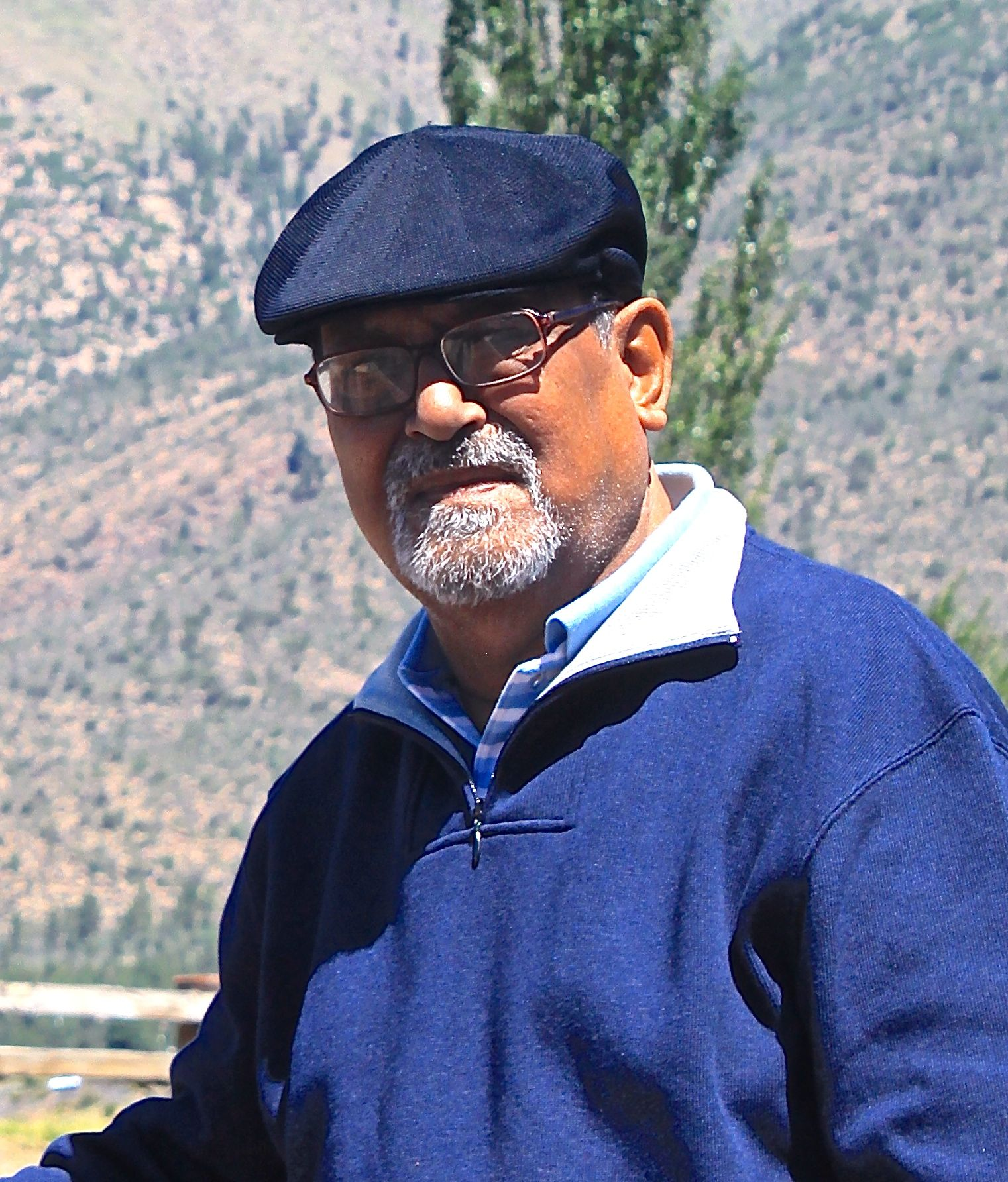 One of the living legends of Oriya Film Industry